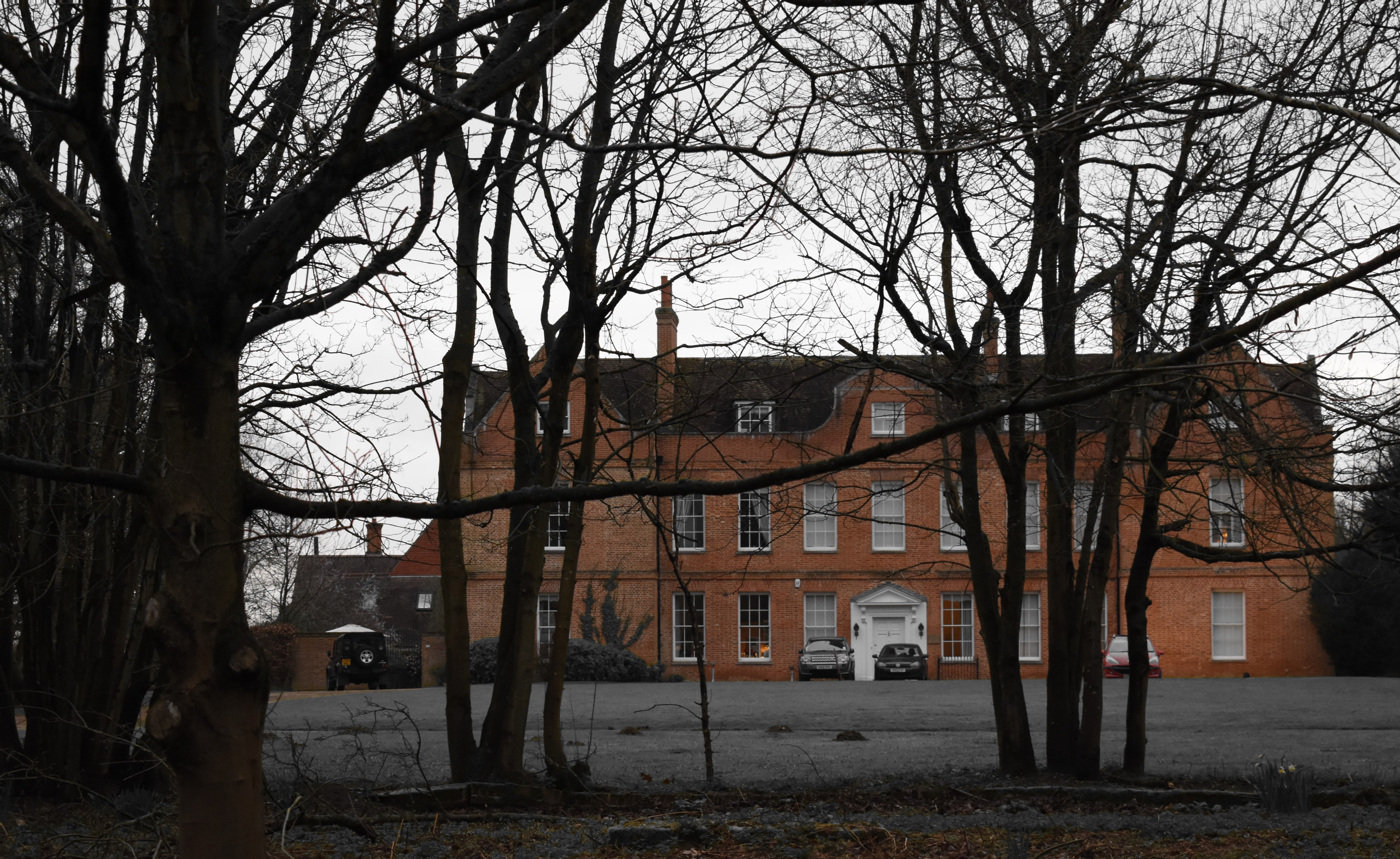 Henley Park Wikidata has entry Q26280872 with data related to this item.